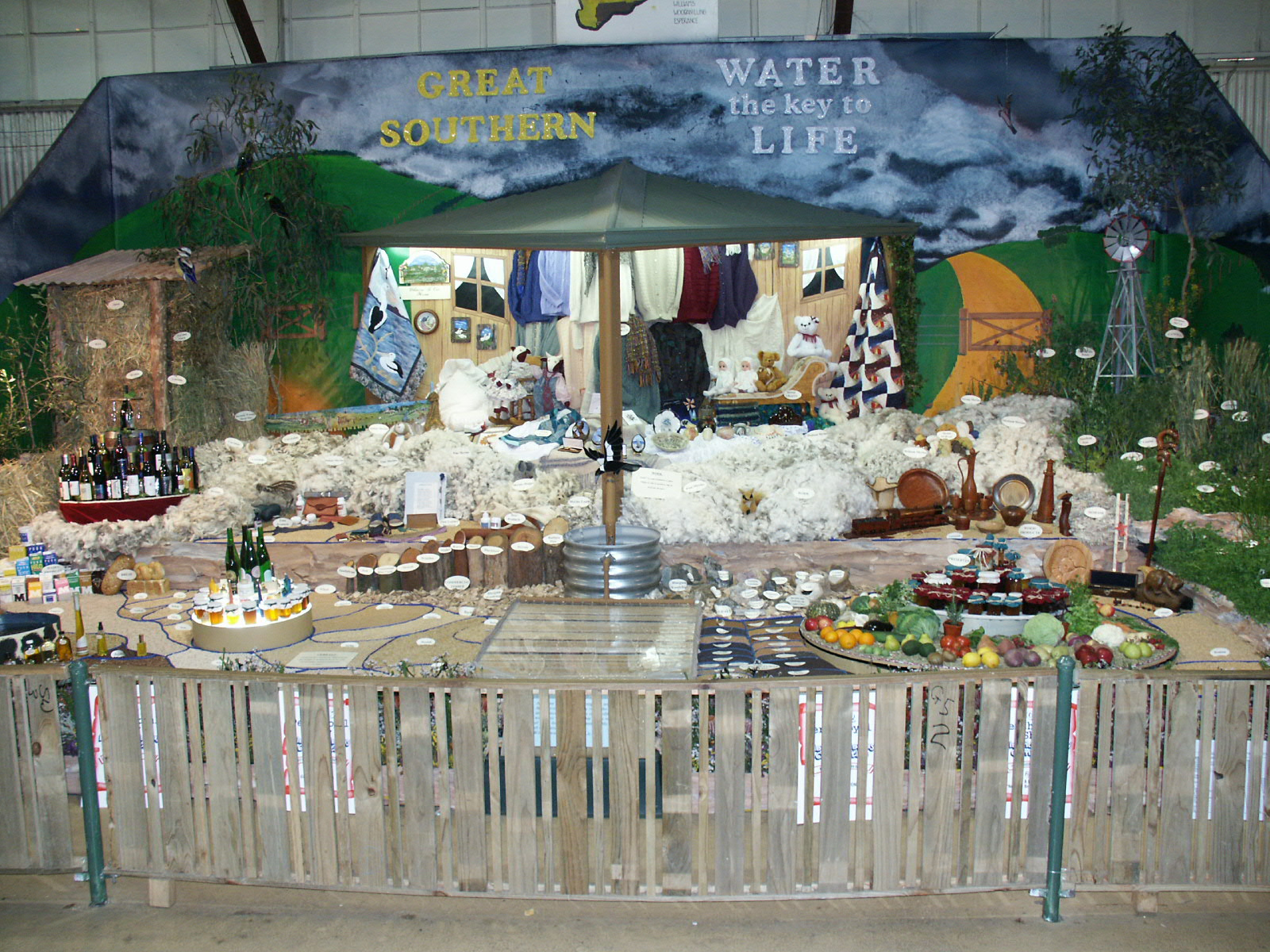 Perth Royal Show Great Southern region District display.